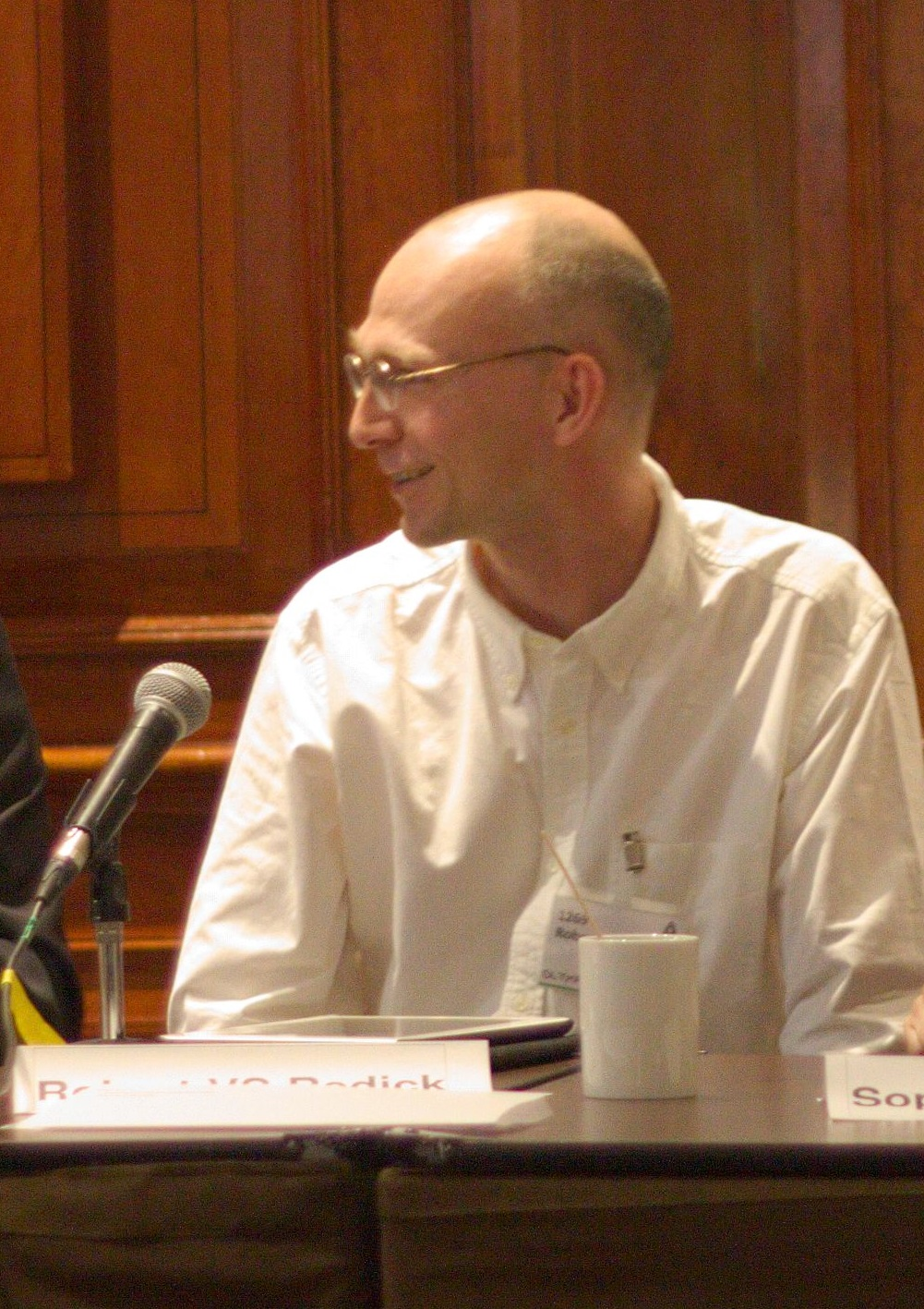 Robert V.S. Redick at Eastercon Olympus 2012 (cropped from another photo)